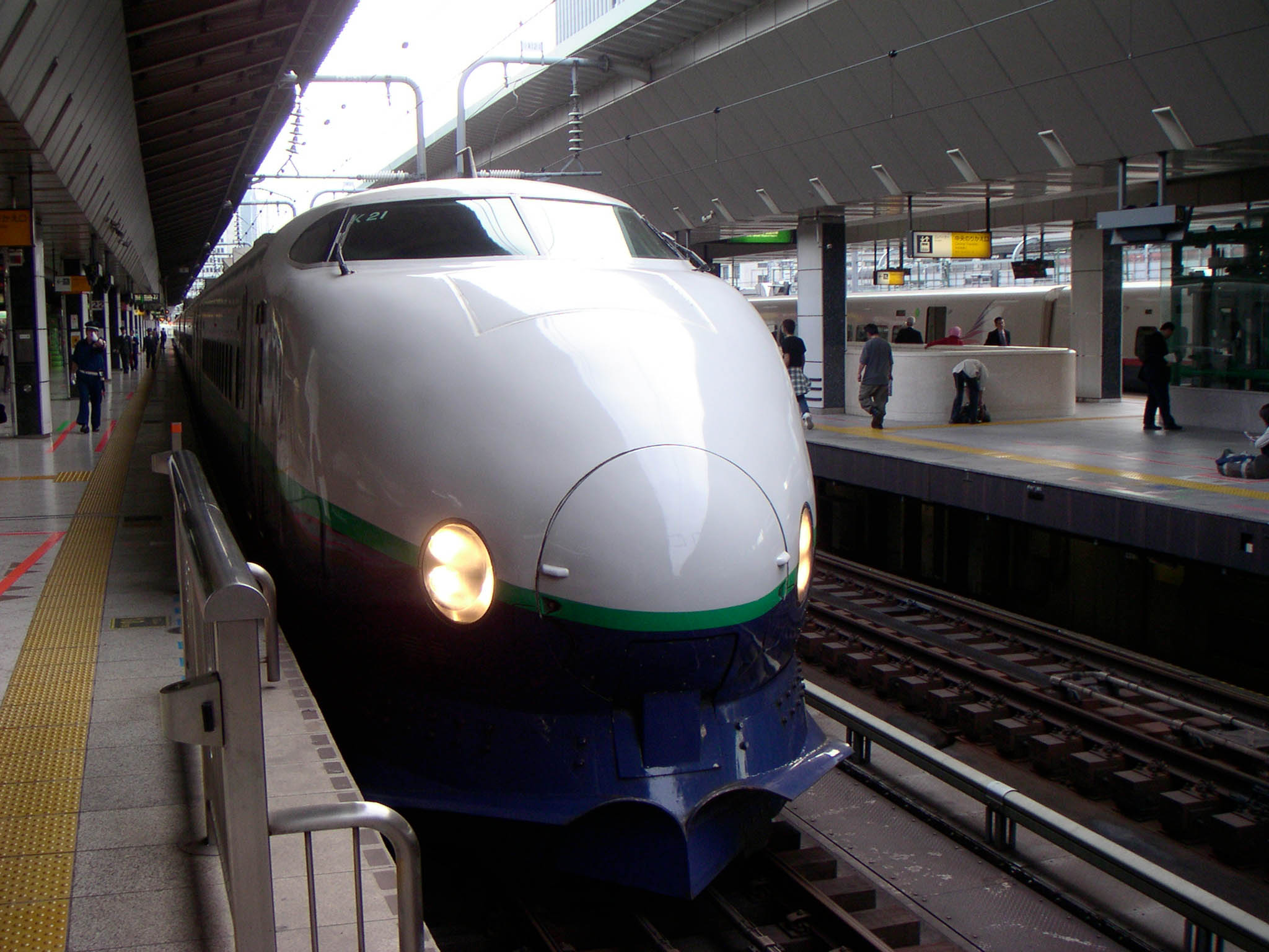 200 series Shinkansen train at Tokyo Station, Tohoku Shinkansen